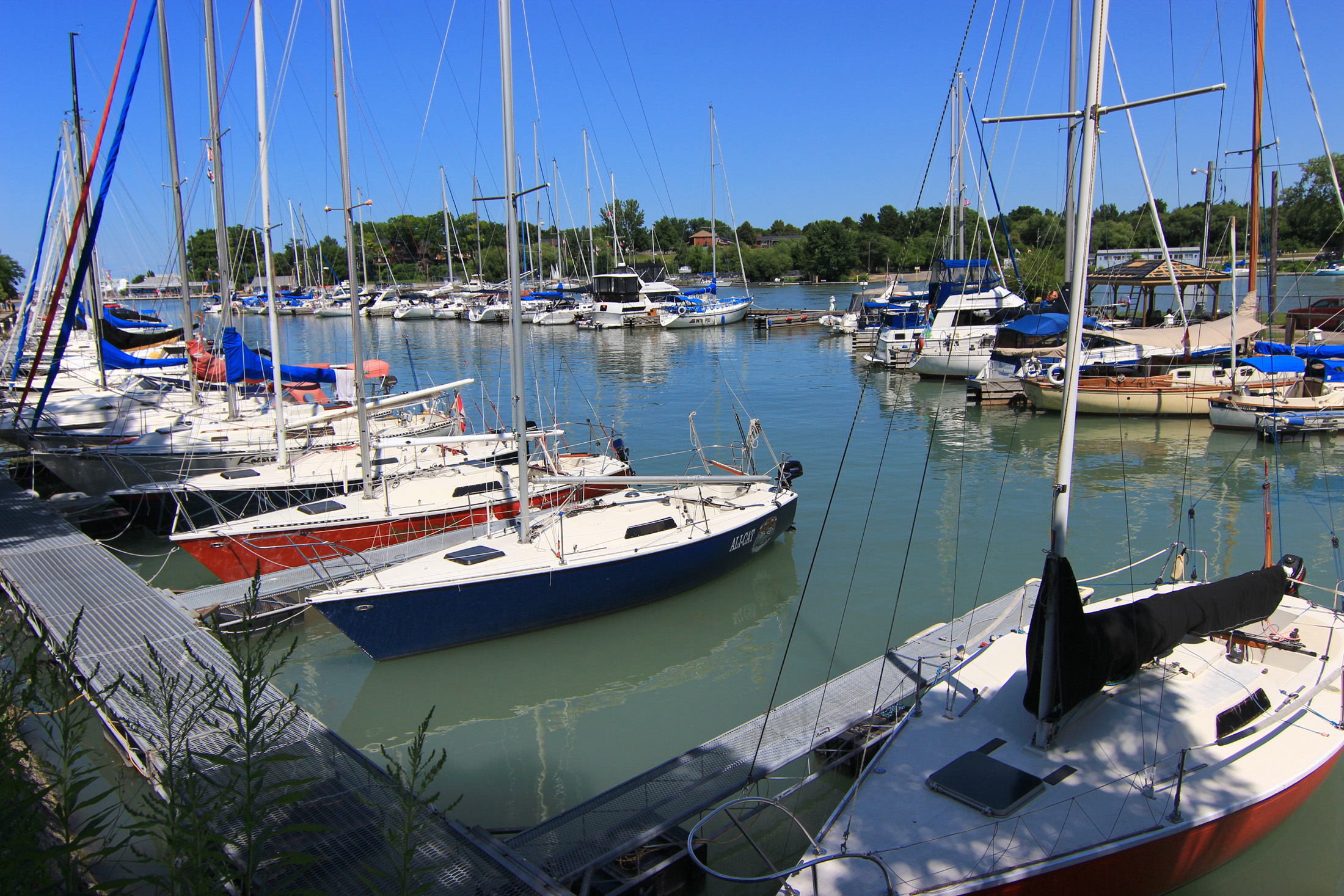 Port Dalhousie Yacht Club West Docks, Waterfront Trail